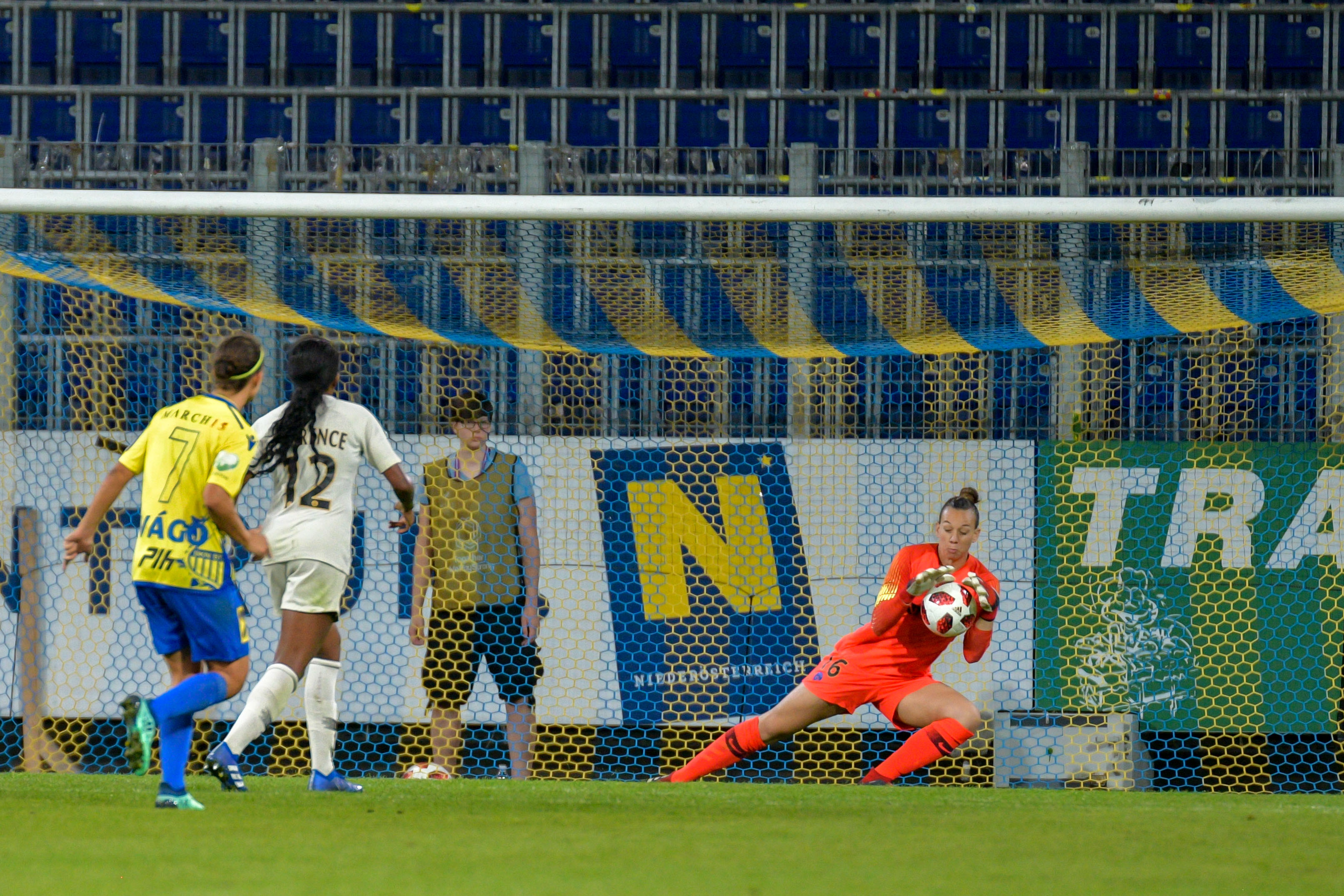 UEFA Women's Champions League 2019 Final Round of 32 SKN St.Poelten vs. Paris Saint Germain 2018/09/12. Picture shows Claudia Christiane Endler Mutinelli of PSG saves a shot of Fanny Vágó of SKN.